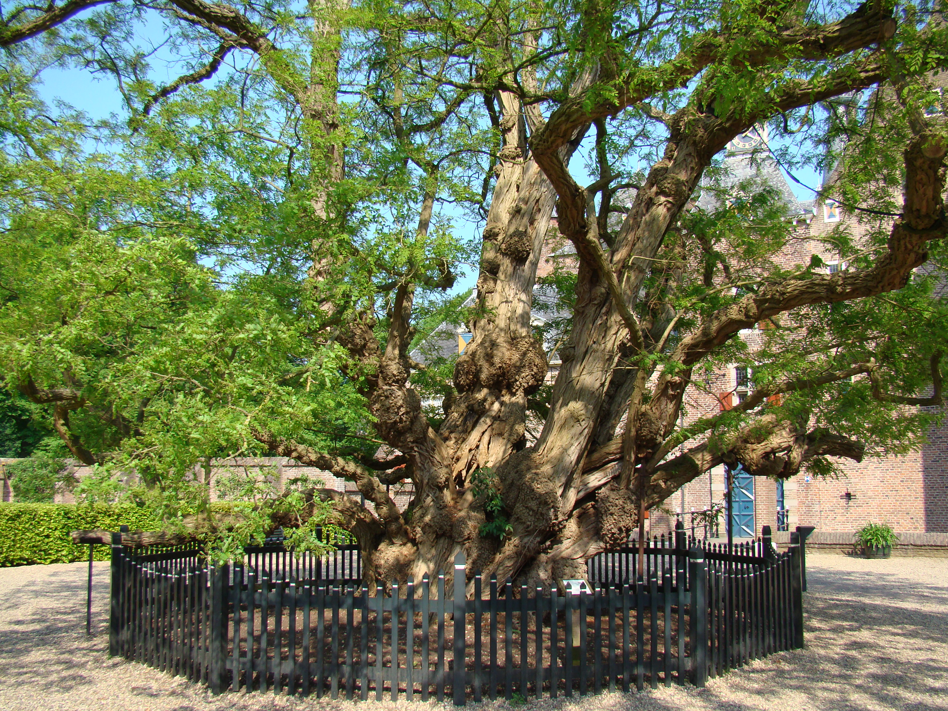 Impressions of Castle Doorwerth